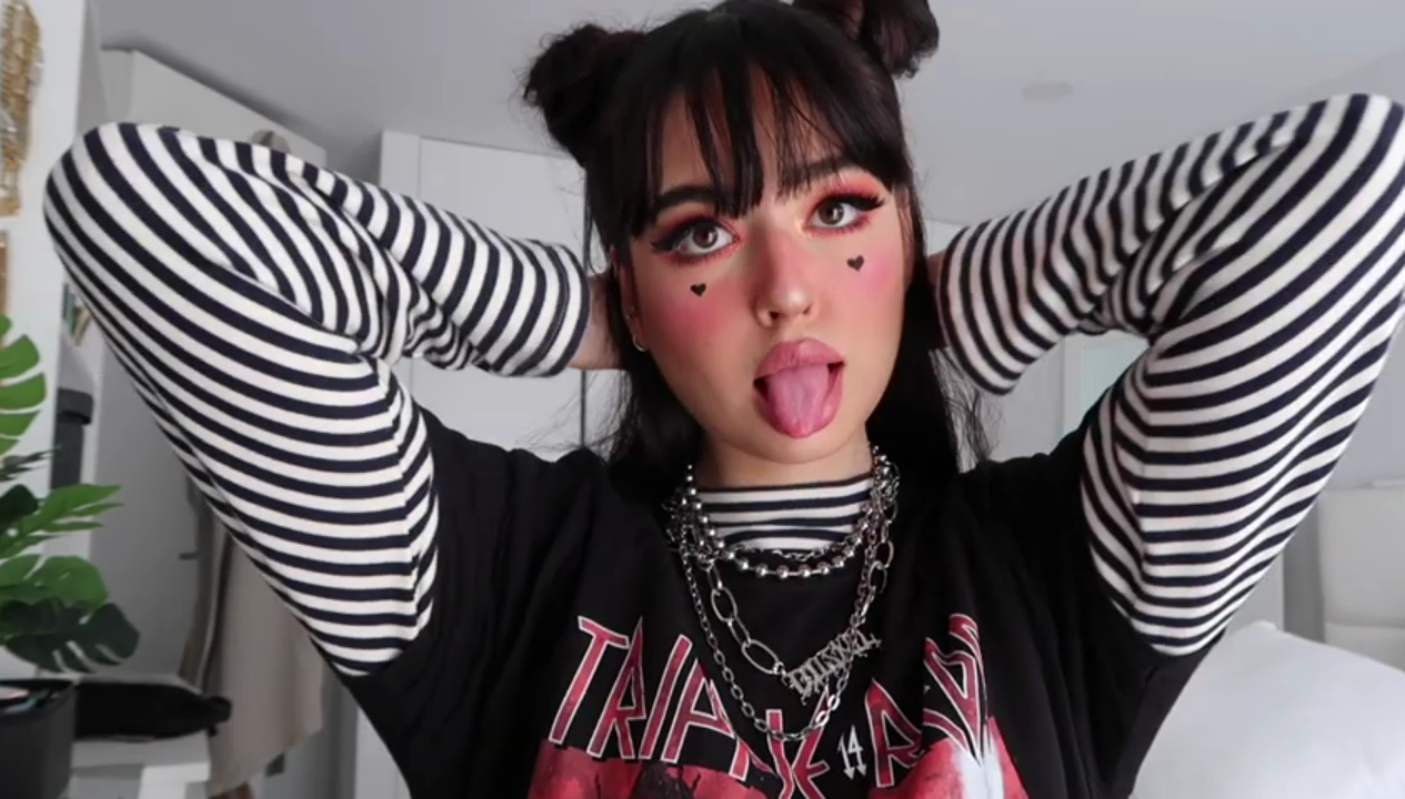 E-GIRL TRANSFORMATION!